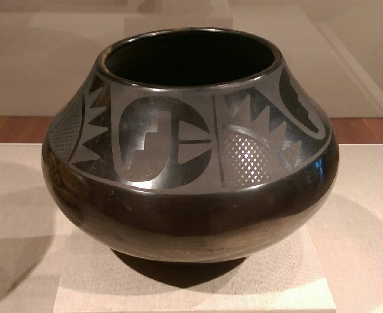 A pot by Native American artist Maria Martinez, approximately 1945, on display at the de Young Museum in San Francisco. Photo by Jim Heaphy.